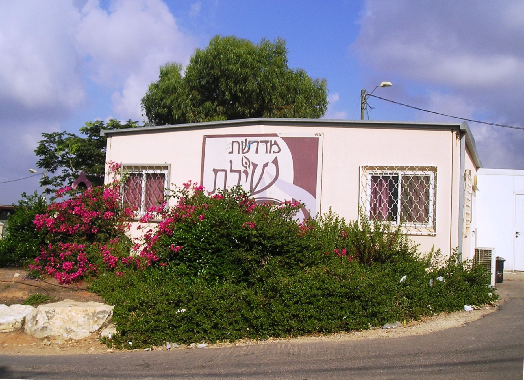 Midreshet Shilat main office